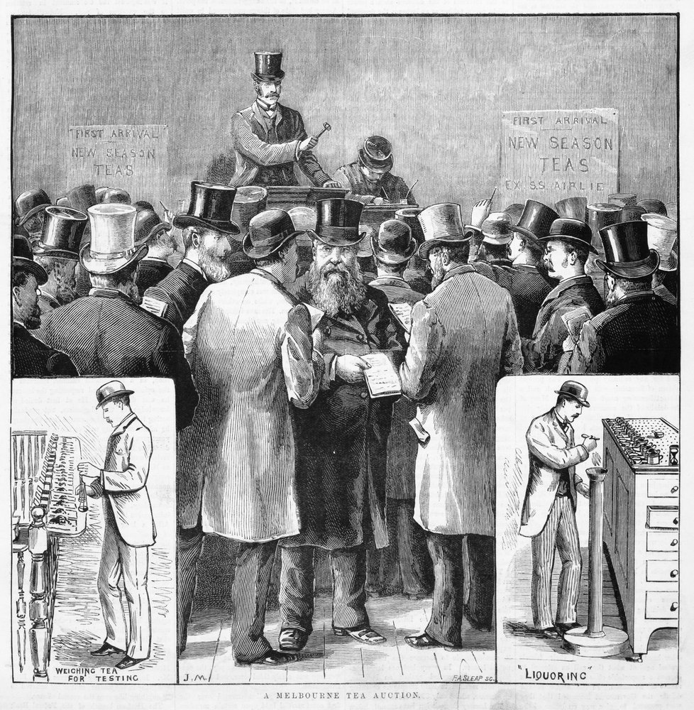 Melbourne tea auction This print from a wood-engraving shows a Melbourne tea auction, including tea being weighed, tea tasting (referred to as "liquoring") and an auctioneer taking bids from crowd of buyers. September 2, 1885. To find out more about this image, visit our catalogue: .au/10381/46596